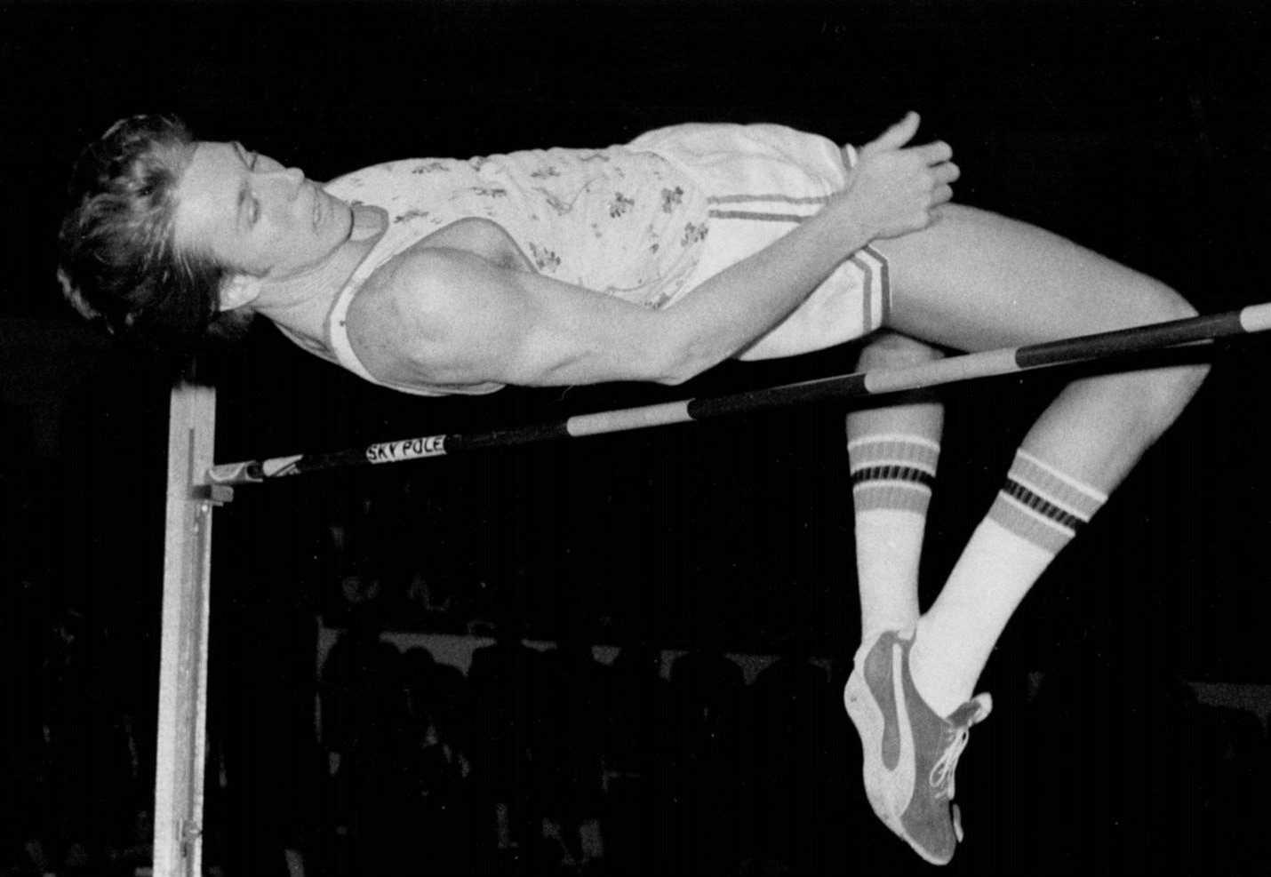 1975 Wire Photo winning AAU Track & Field Championships high jump Dwight Stones